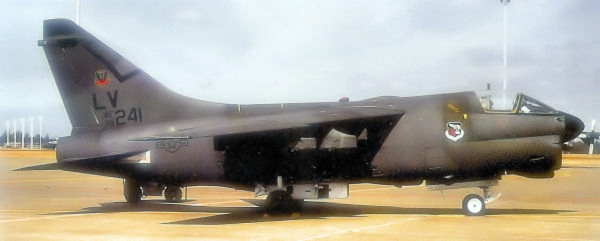 4451st Tactical Squadron A-7D Corsair II 69-6241 1971: Aircraft delivered to 354th Tactical Fighter Wing/356th TFS, Myrtle Beach AFB, SC (c/n D-071) Transferred to 182d Tactical Fighter Squadron, OH Air National Guard, 1977 Transferred to 4450th Tactical Group/4451st TS, Nellis AFB, NV, 1984 Transferred to AMARC, 1989 Currently on static display at Brooke-Hancock County Veterans Memorial Park, Weirton, WV (Marked as PA Air National Guard aircraft)